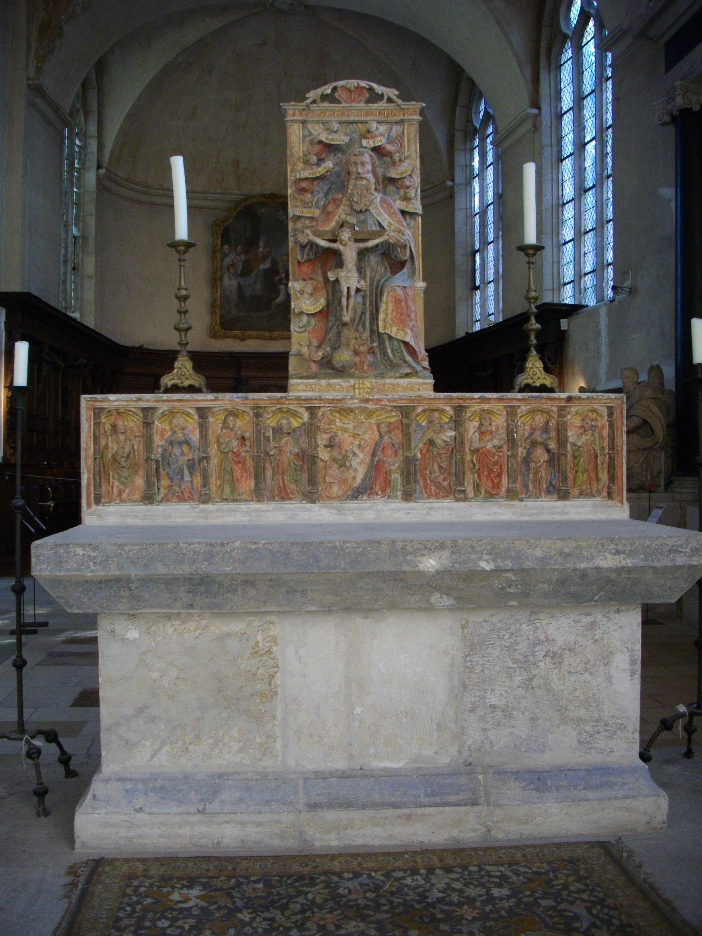 Main altar of Saint Fiacre chapel in Rigny-Saint-Martin, kept in Cordeliers' church of Nancy. Small unidentified coat of arms in the centre.